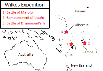 Map of the battles fought during the Wilkes Expeditions, 1840-1842.